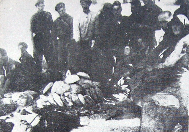 On the free territories by partisans units in 1944: collecting food for the partisan units. This media file is produced by Wikipedian in Residence in Category:Wikipedian in Residence at DARM in 2016.